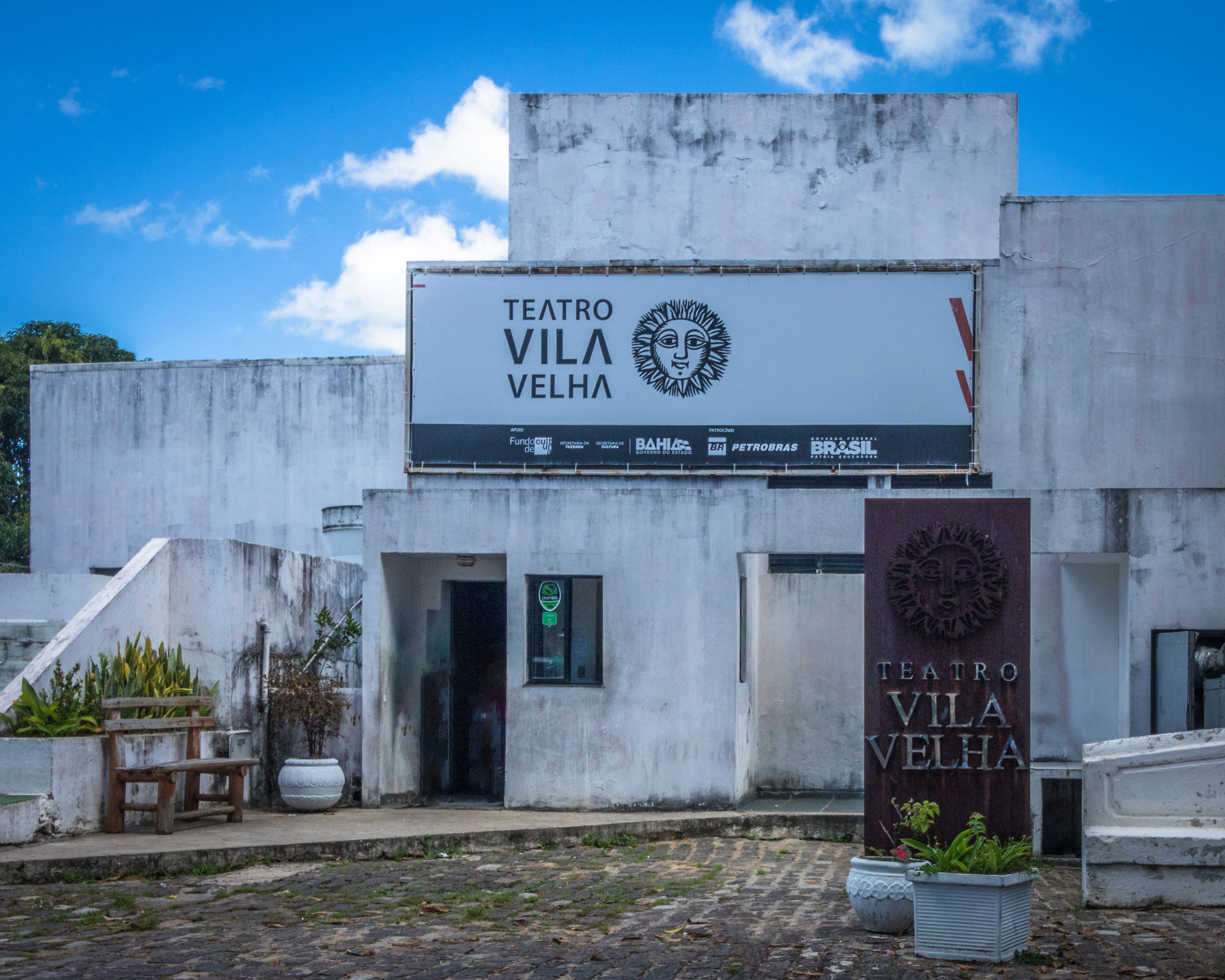 Teatro Vila Velha, Avenida Sete de Setembro, Passeio Público, Campo Grande, Salvador, Bahia, Brasil.